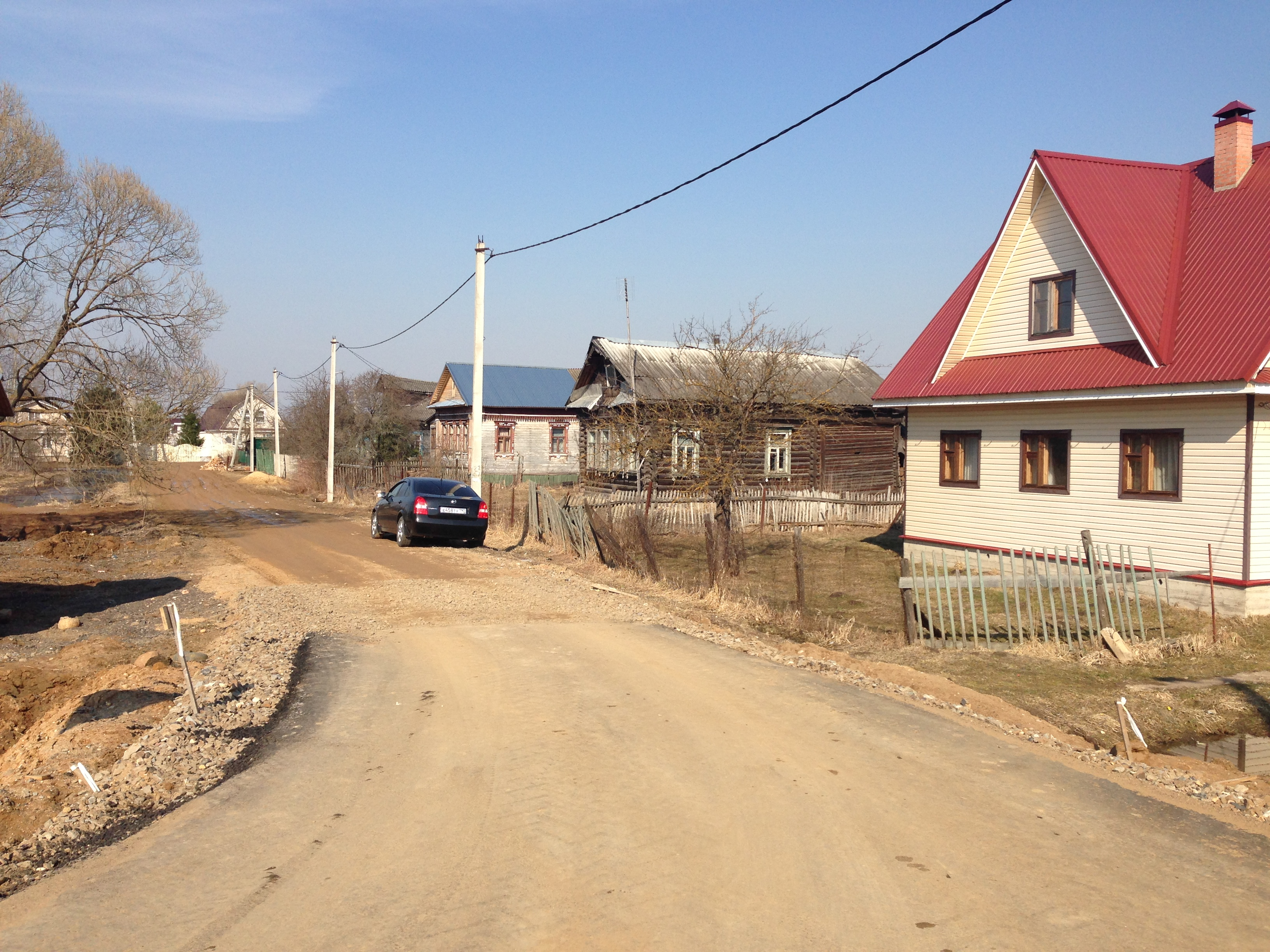 Tarusovo (Taldomsky district, Moscow oblast).